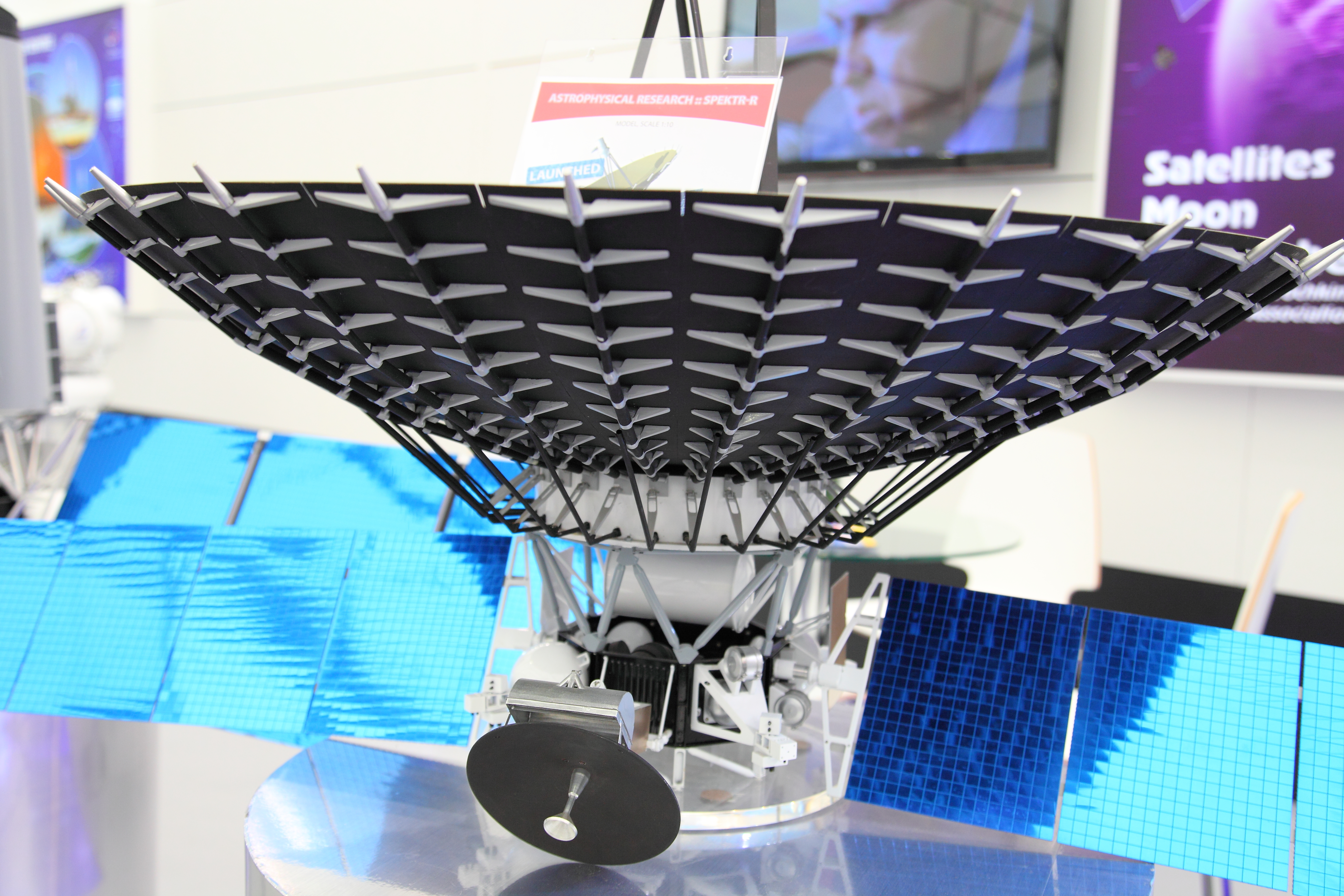 ILA Berlin Air Show 2012; Astrophysical Research: Spektr-R; model, scale 1:10; International orbital observatory in frame of the "RadioAstron" mission. The basis of the experiment is a ground-space interferometer, sonsisting of ground radio telescopes network and a space radio telescope, installed on "Spektr-R" spacecraft, launches in 2011; spacecraft mass - 3800 kg payload mass - 2600 kg payload composition - space radio telescope platform - "Navigator" mission lifetime - 3 years electrical power for the payload - 1150 W launch vehicles - LV "Zenit", "Fregat-SB" upper stage operational orbit parameters - high elliptical orbit (500 x 36000 km , 51 deg) Federal State Unitary Enterprise Lavochkin Association